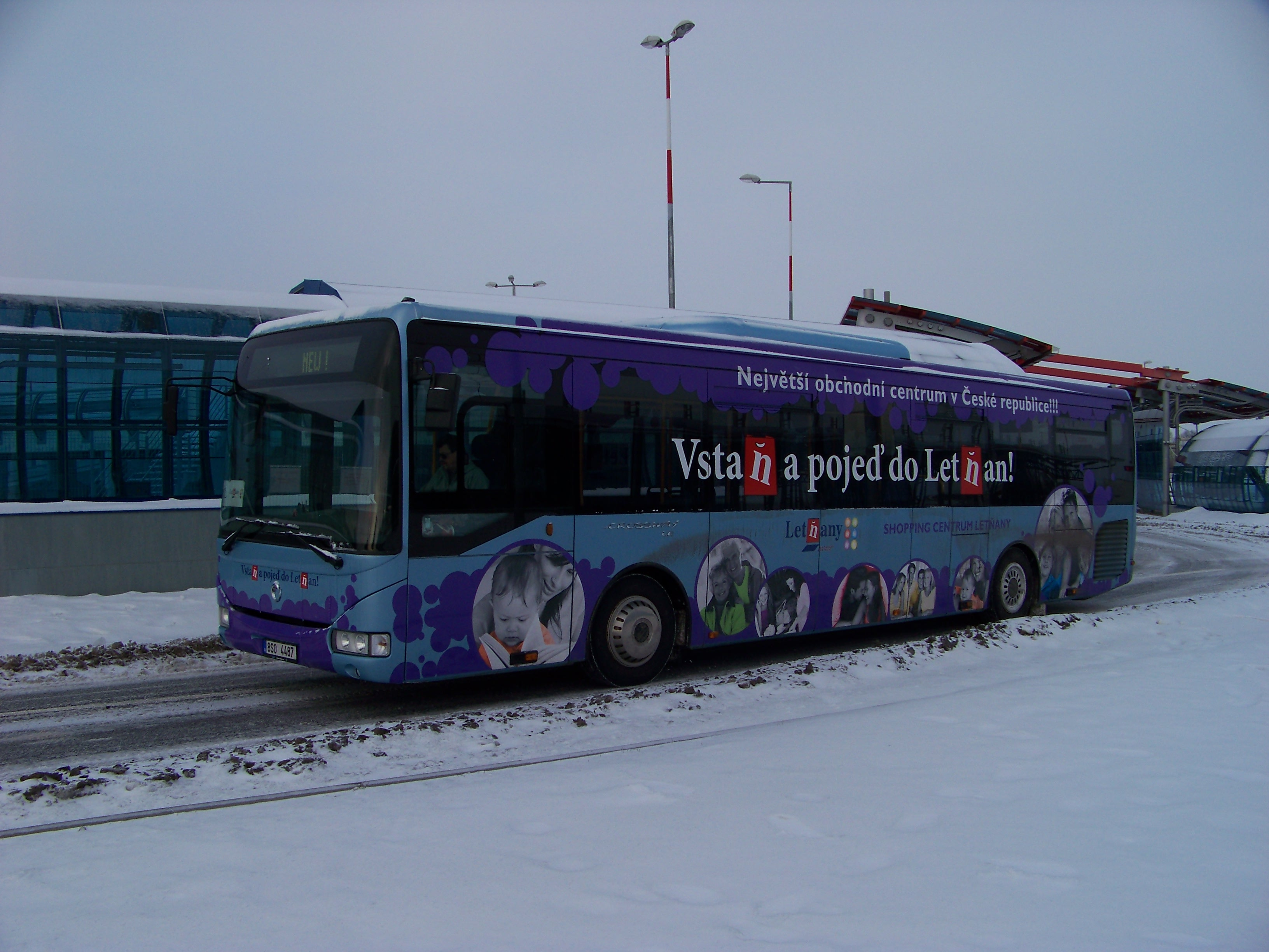 Prague-Letňany, the Czech Republic. Letňany metro station, a special bus of Letňany Shopping Centre (bus operator Libor Valenta).